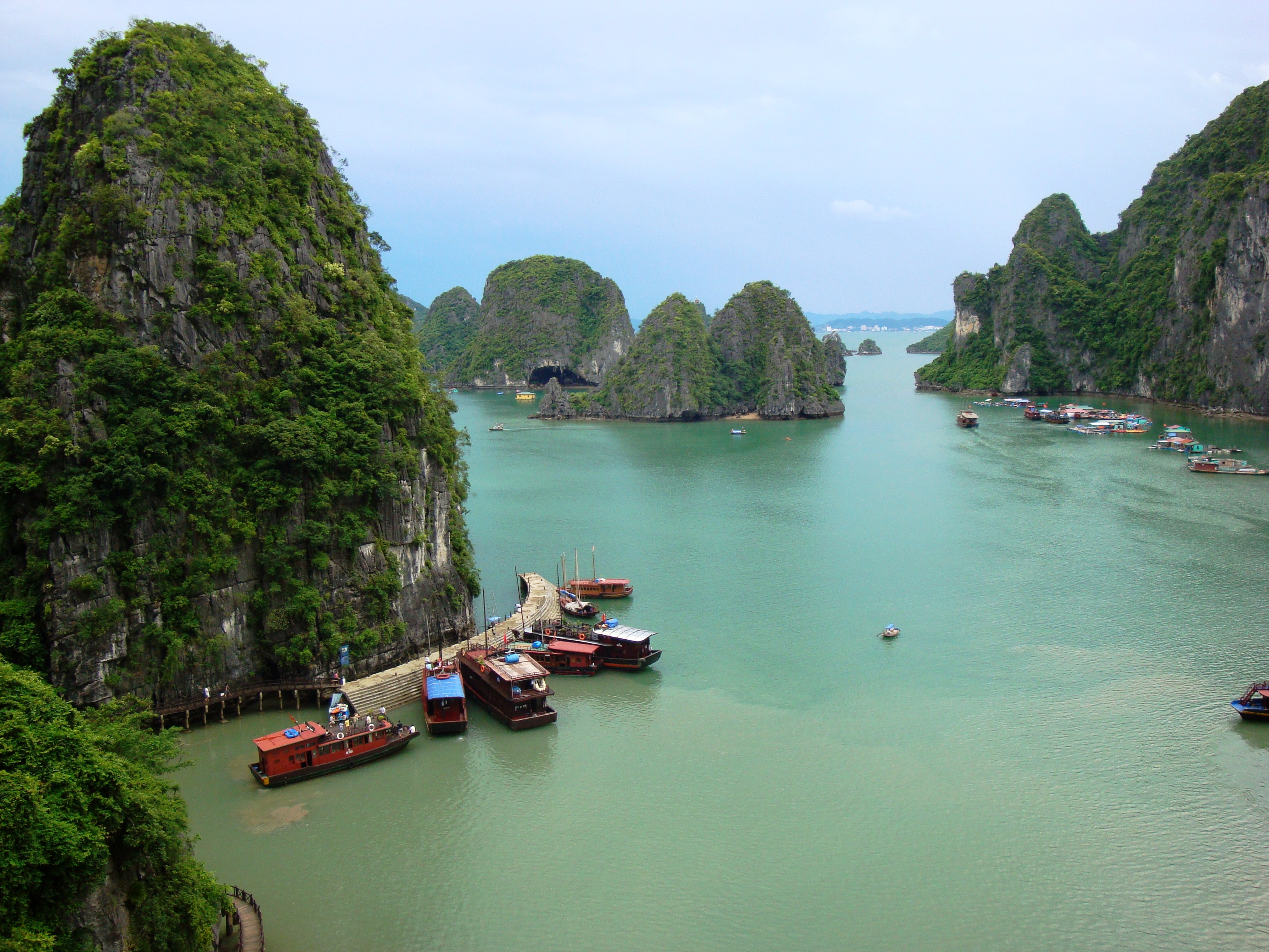 View from the above of the Ha Long Bay